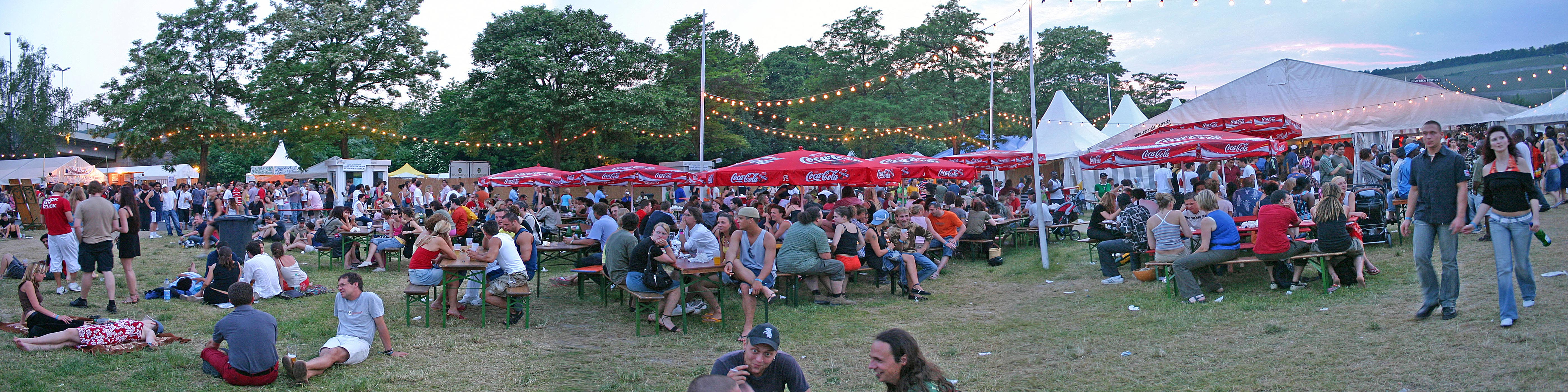 Würzburgs Africa Festival, May 2005